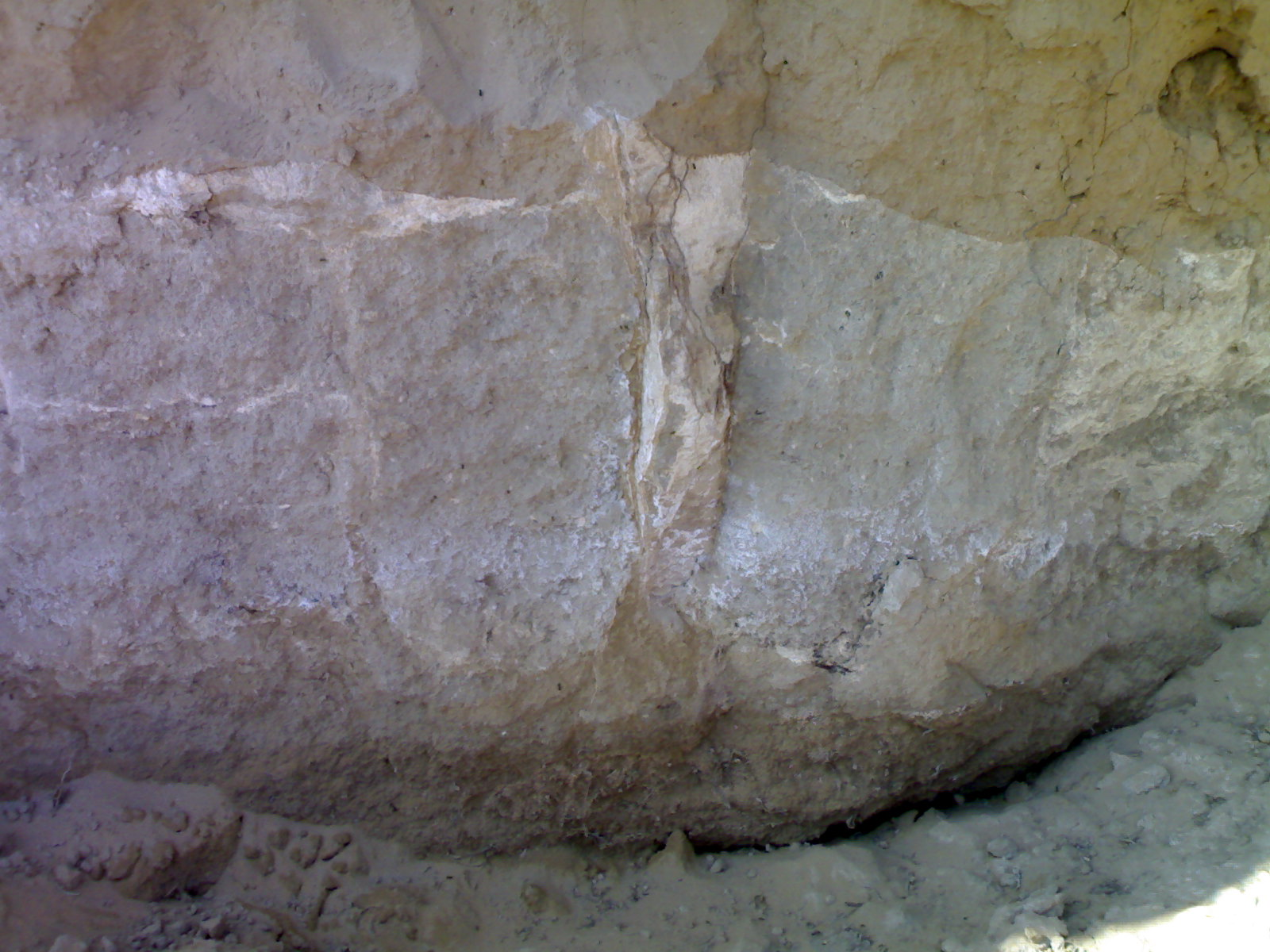 This photo show you a gypsum rock in Ganganagar district.This photo is created by me(user:Shemaroo aka Sivender Singh, ) Shemaroo (talk) 13:14, 5 March 2011 (UTC)